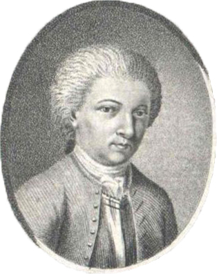 Jacques Égide Duhan de Jandun (1685-1746)